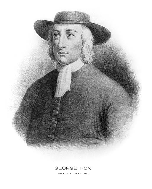 Facsimile of a George Fox portrait drawn on stone.